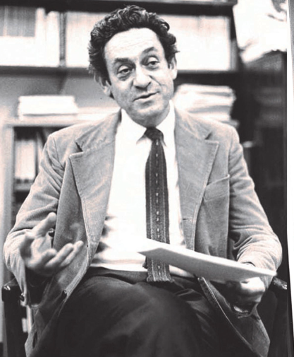 Depicted person: Jule Gregory Charney – US meteorologist